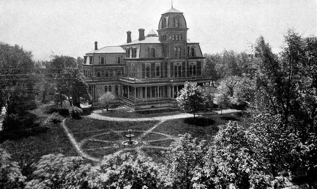 Wiliam G. Fargo Mansion in Buffalo, NY